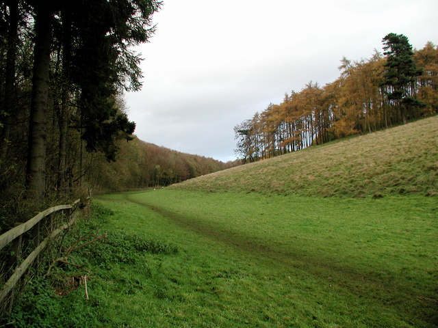 Welton Dale, Welton, East Riding of Yorkshire, England.